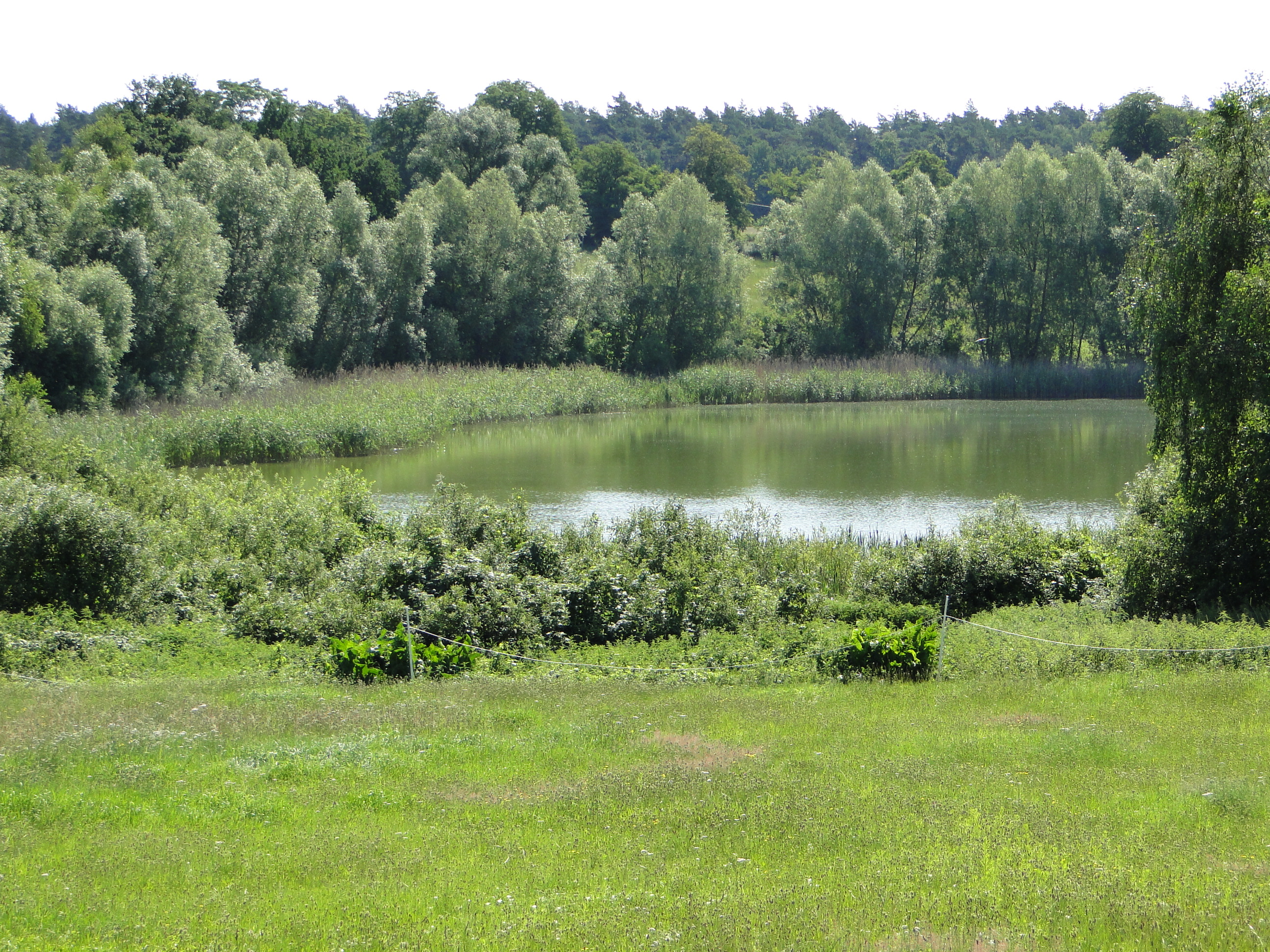 Pond in Rum Kogel, district Güstrow, Mecklenburg-Vorpommern, Germany